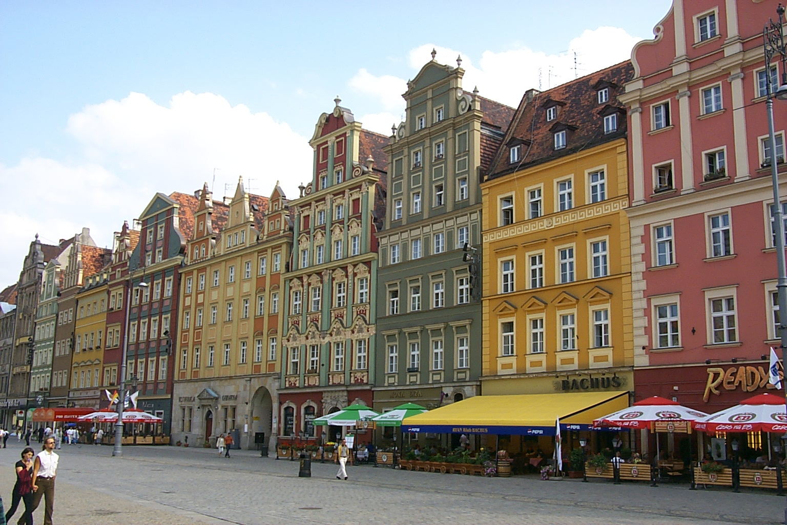 One side of the main square in Wroclaw.